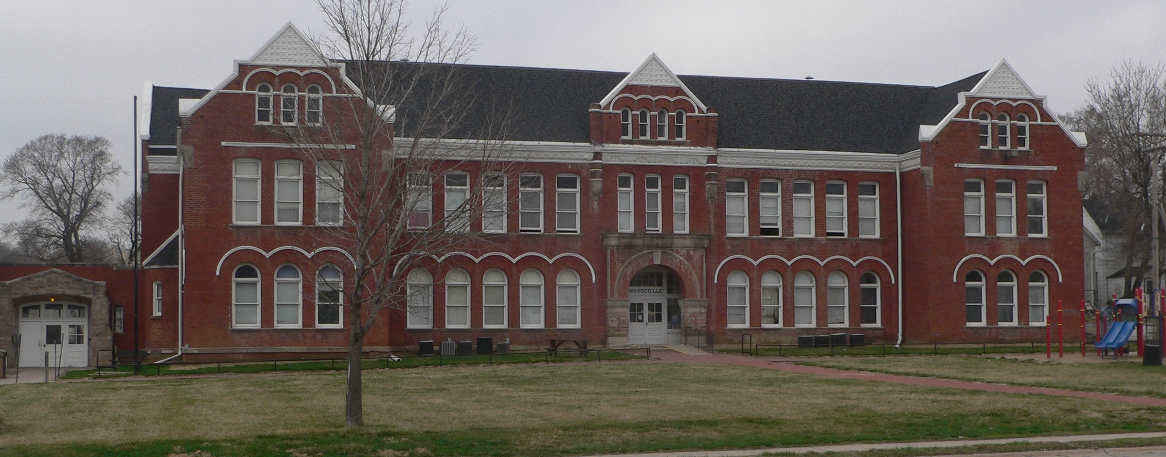 Mason School, located at 1012 S. 24th Street in Omaha, Nebraska; seen from the east. The 1936 addition is outside the frame to the left (south).